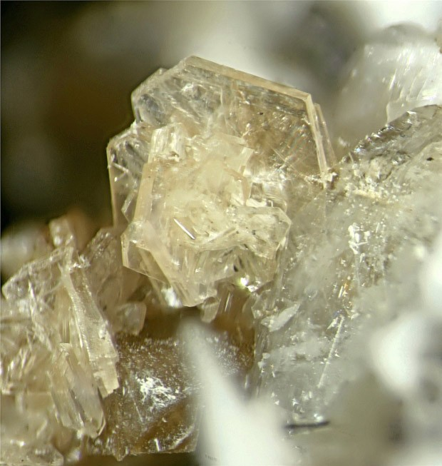 Sabinaite (FOV 4.7 x 4.9 mm) Locality: Poudrette quarry (Demix quarry; Uni-Mix quarry; Desourdy quarry; Carrière Mont Saint-Hilaire), Mont Saint-Hilaire, Rouville RCM, Montérégie, Québec, Canada Description: Found 1997/8. MOB coll.